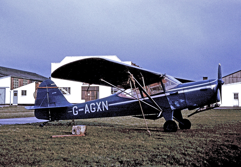 Auster J/1N Alpha built at Rearsby in 1946 parked outside the Auster Aircraft Factory at Rearsby in 1966